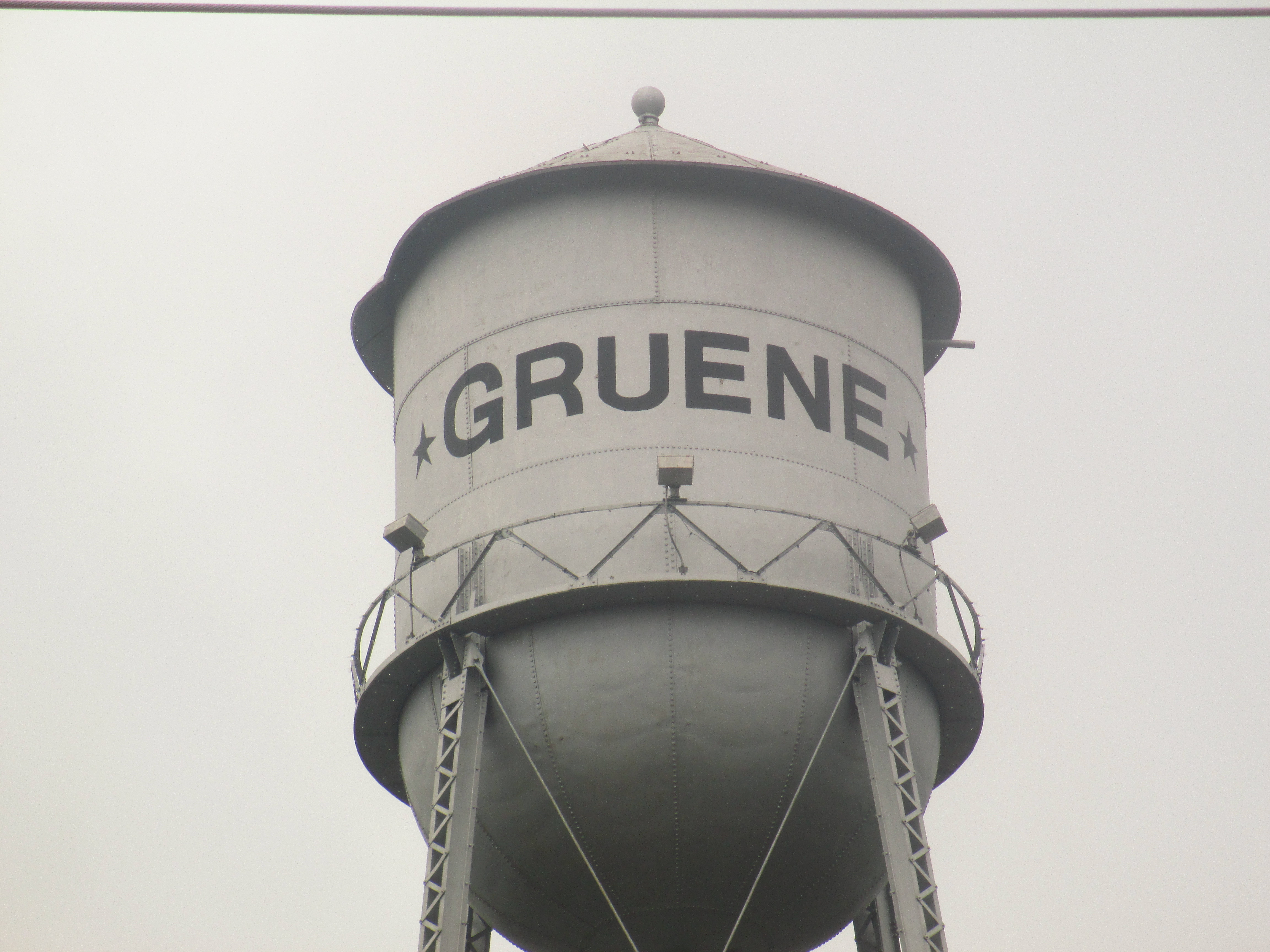 Revised, Gruene, TX, Water Tower